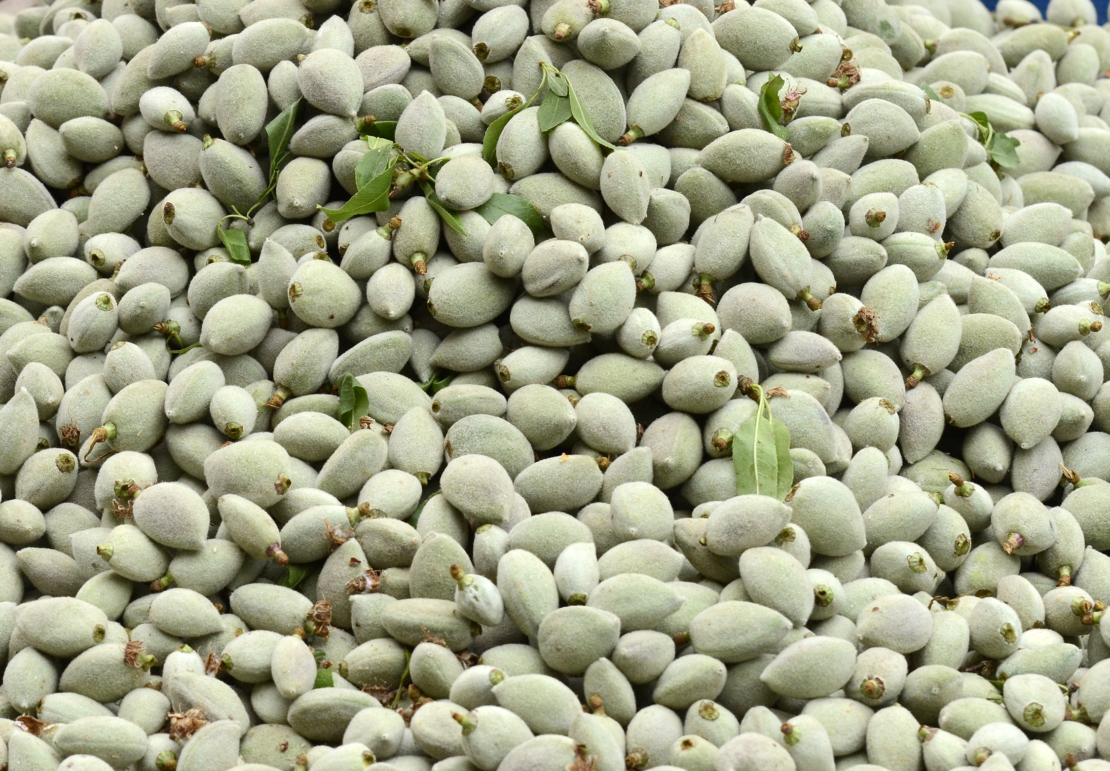 Green almonds. Kozan, Adana - Turkey.